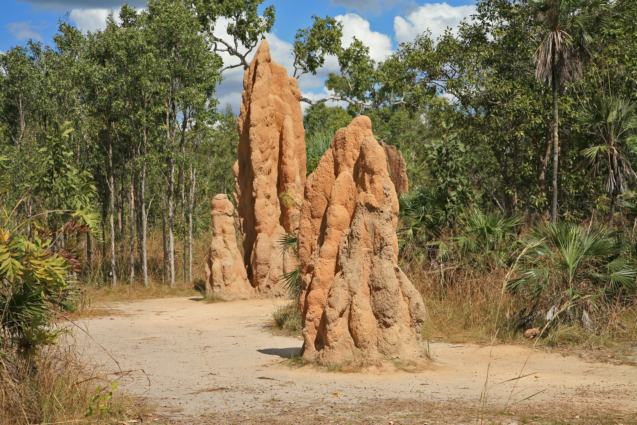 Termite buildings in the Litchfield National Park, in Northern Territory Australia. Termites are derived from the Termitidae species. The hills reach heights of up to 7 meters.